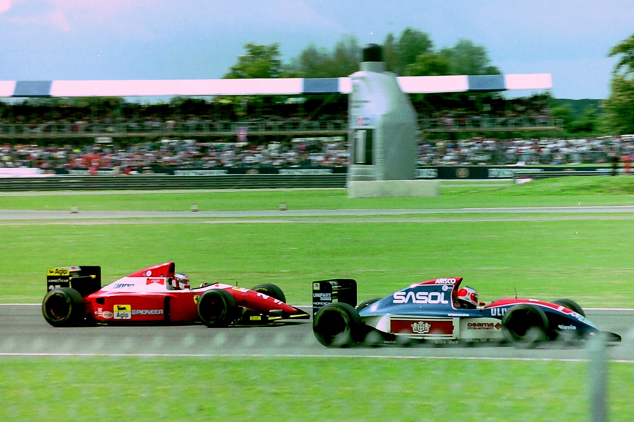 Jean Alesi - Ferrari F193A dives inside Rubens Barrichello - Jordan 193 at the 1993 British Grand Prix